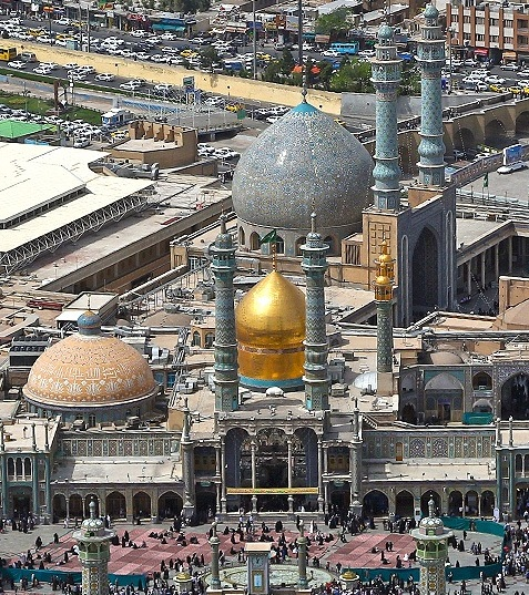 Aerial photographs of Qom, 29 March 2018 (during Nowruz 2018), see full gallery